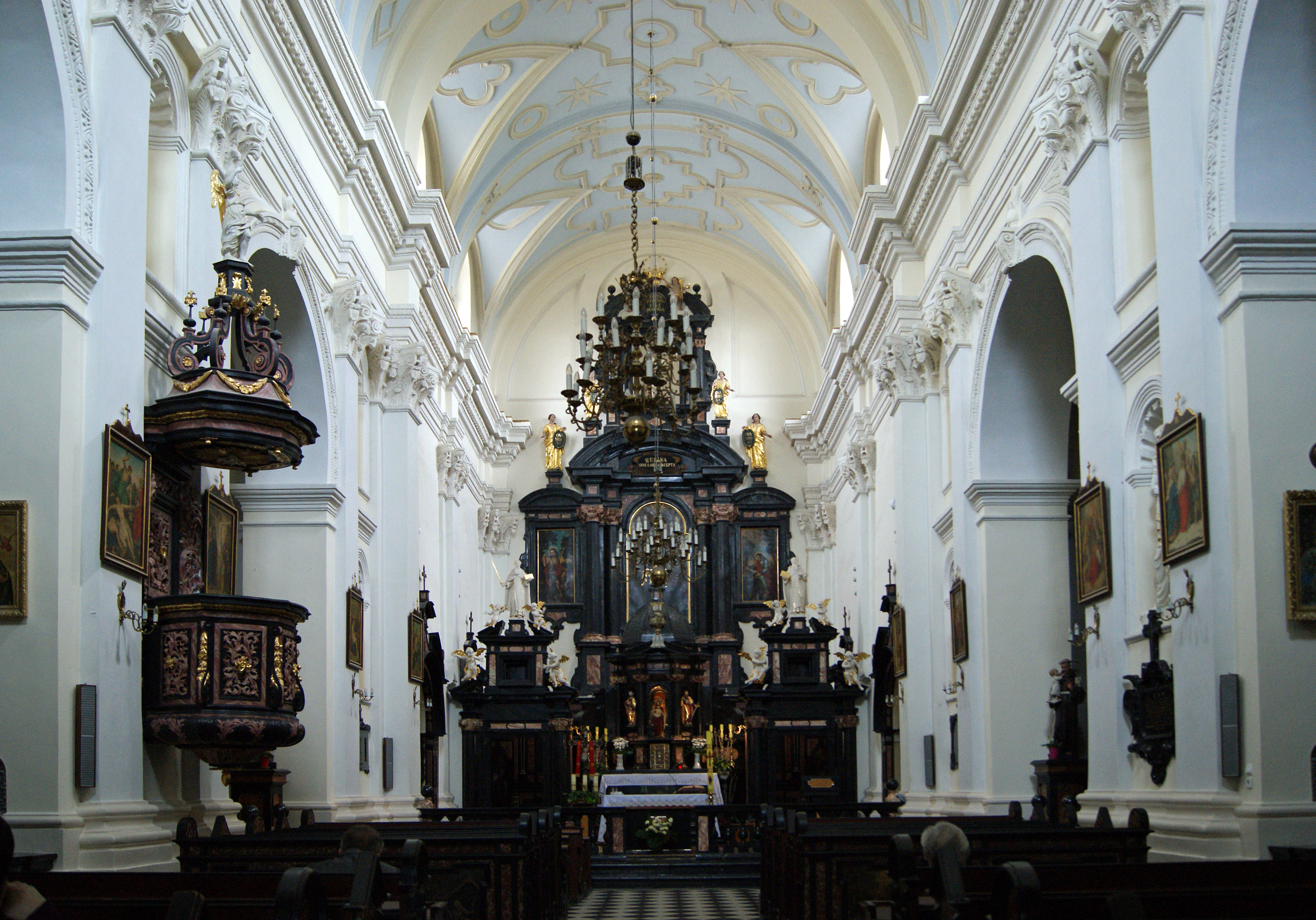 Church of the Immaculate Conception (St Lazarus)-interior, 19 Kopernika street, Krakow, Poland